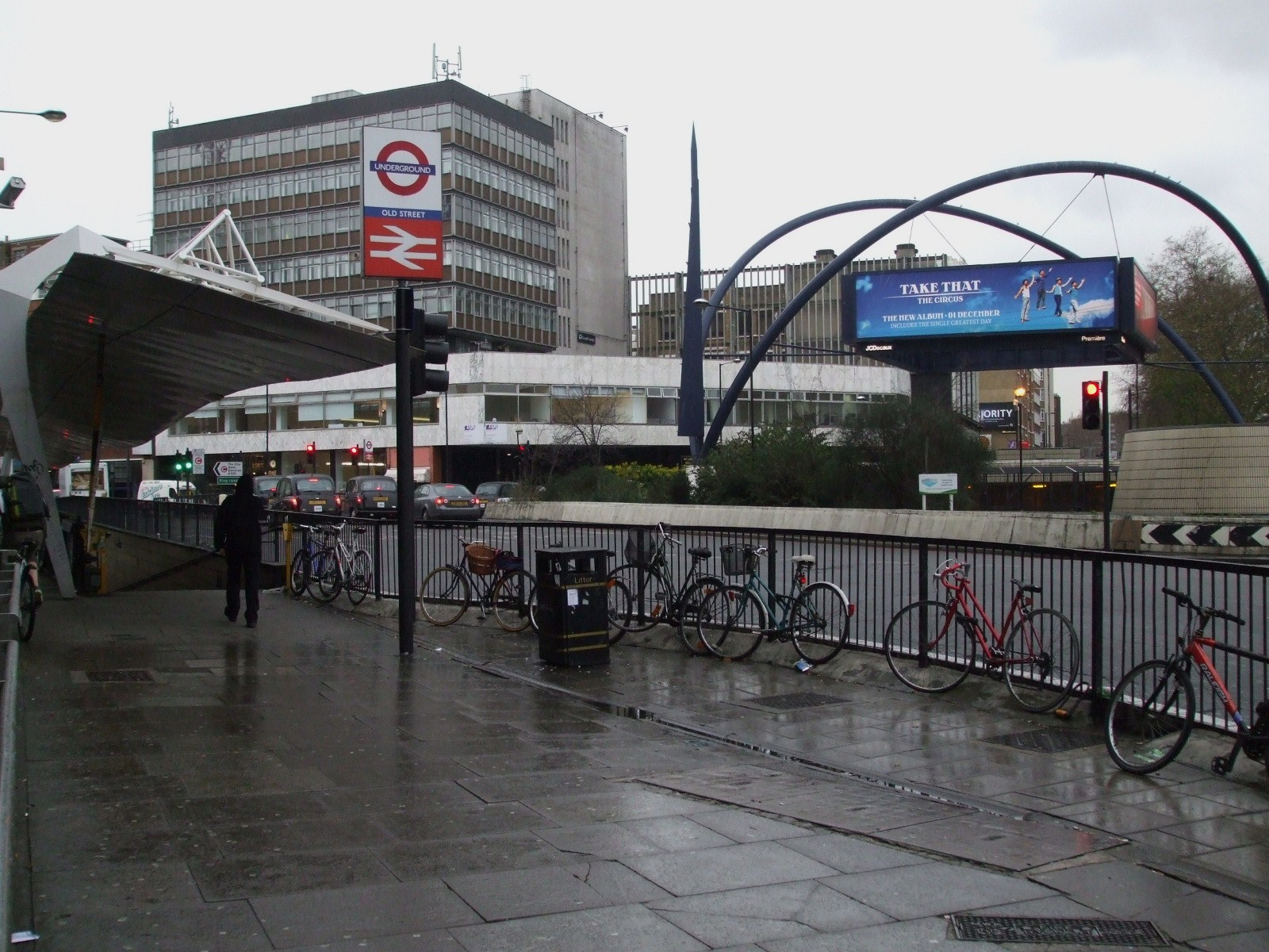 Old Street station southeastern entrance, on Old Street